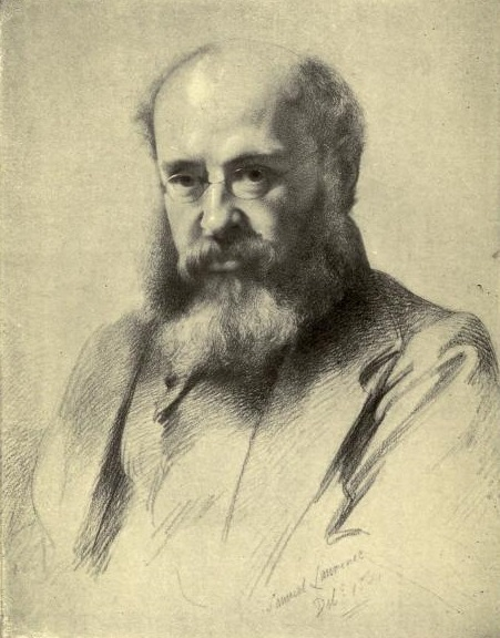 Drawing of Anthony Trollope